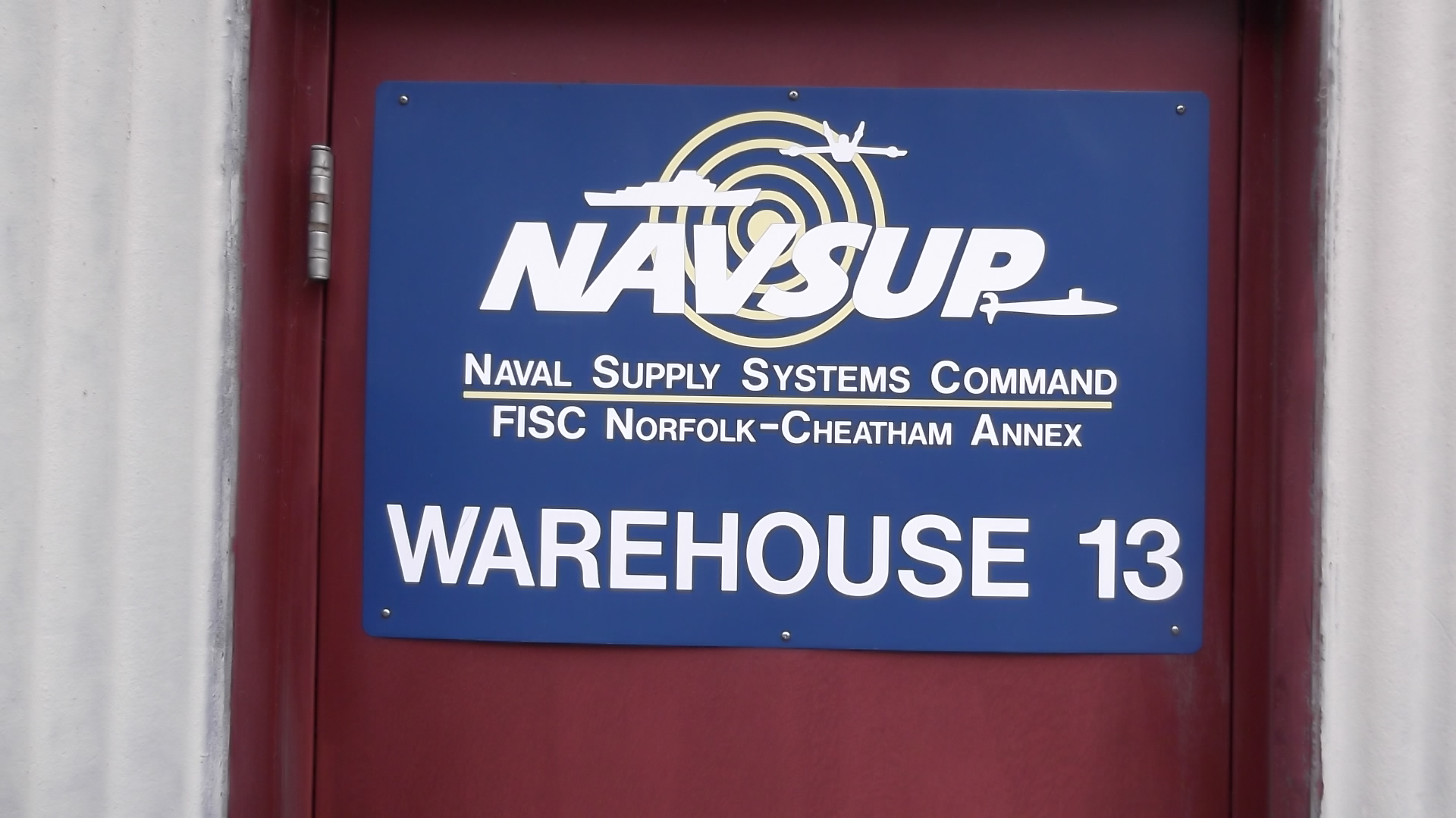 Nameplate of Warehouse at Cheatham Annex, Virginia